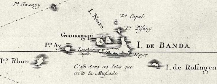 Map of Ceram, Ambon and the Banda islands. Kaart der Molukze Naburige Eilanden / Carte des Isles voisines des Moluques.